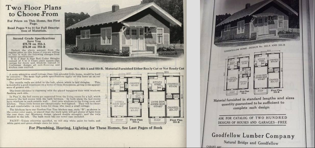 Goodfellow Lumber Company appears to have advertised house kits from the Gordon-Van Tine ready-cut catalogs, in St. Louis City directories of the era, using the same model number as found in the Gordon-Van Tine catalog, but referencing the model as a "Goodfellow Home", as shown in this side-by-side image of Gordon-Van Tine's 1921 model No 553 - A/553-B, next to a page from the 1920 St. Louis City directory, advertisting the model through Goodfellow Lumber Company.